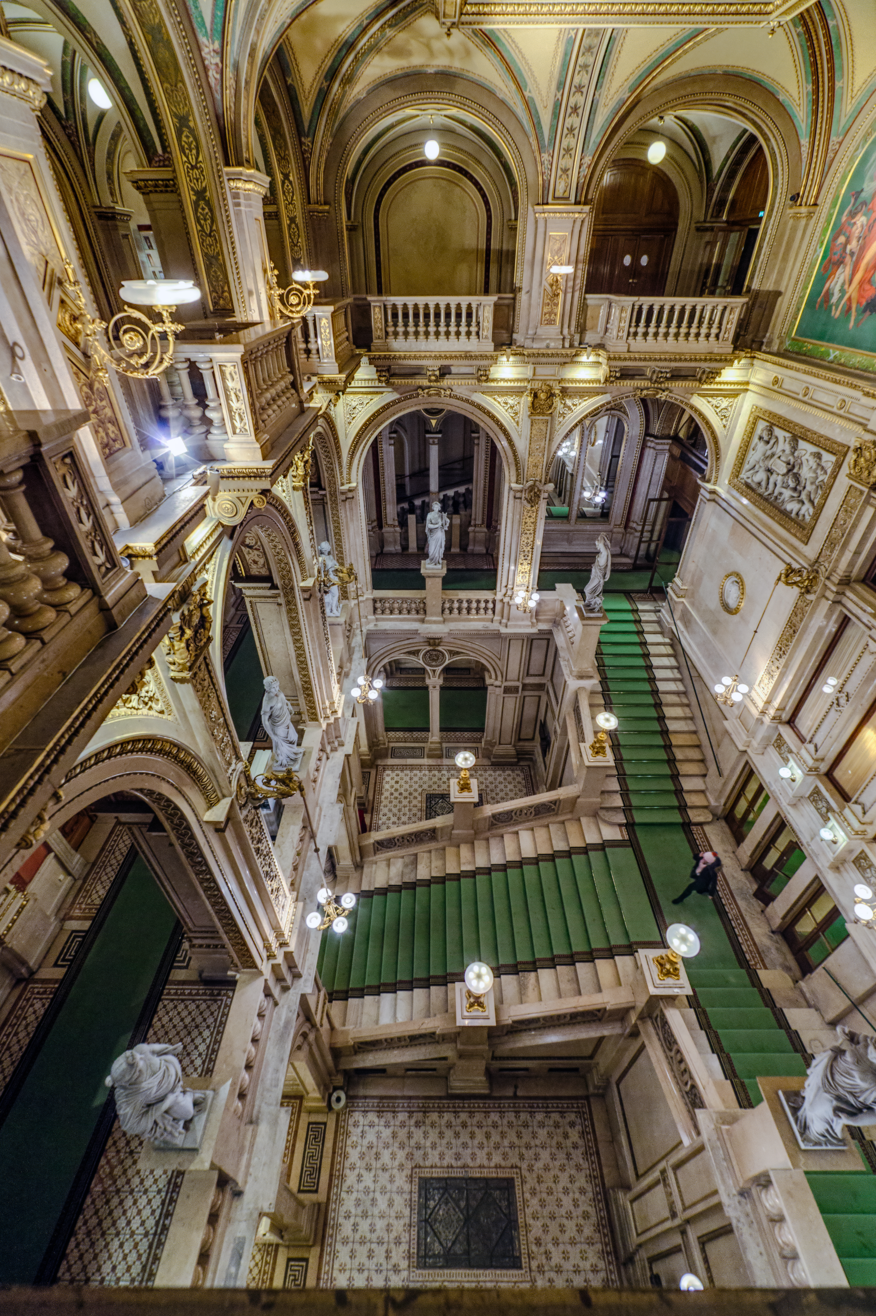 Interior of the Vienna State Opera, Austria.